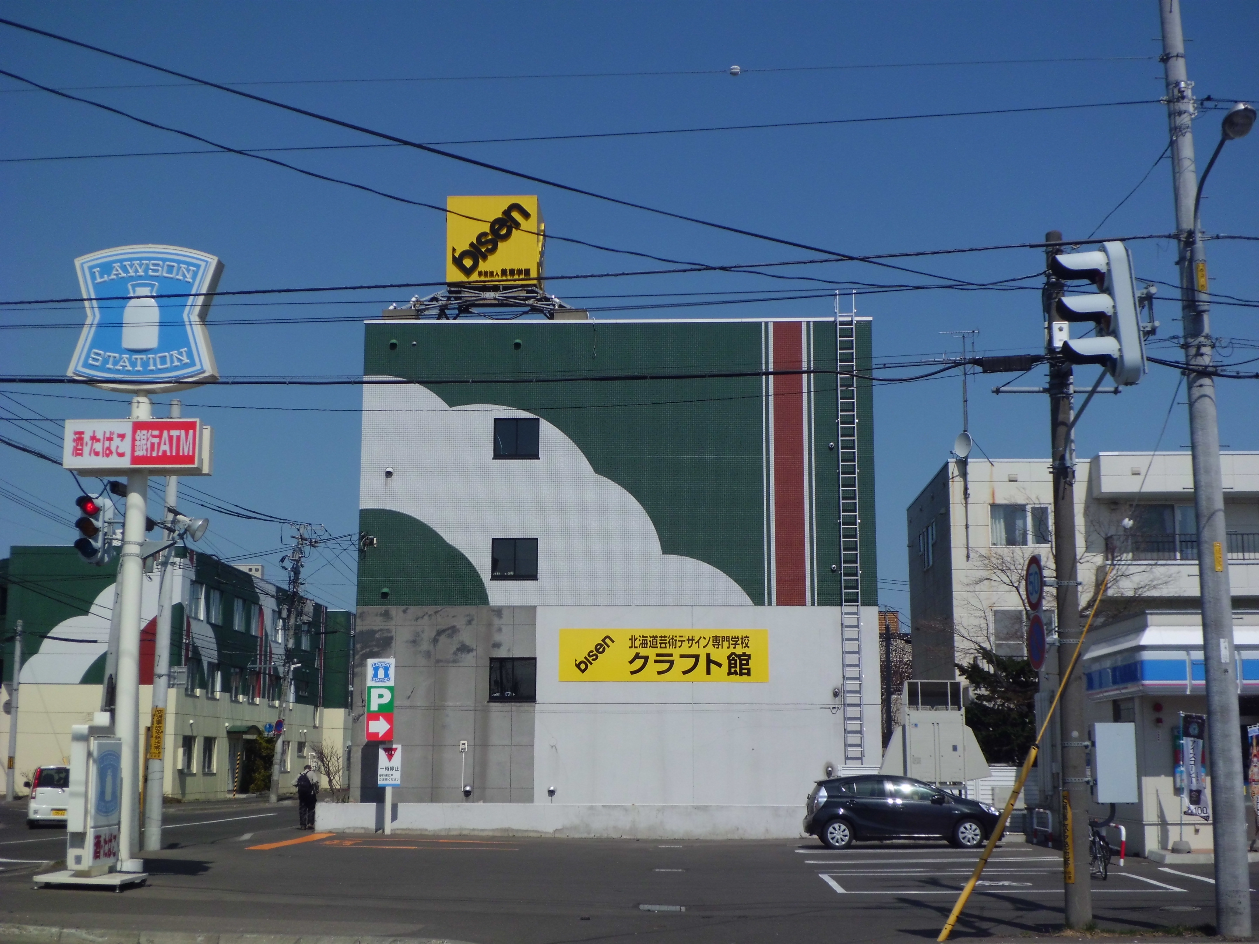 Hokkaido Collage of Art and Design Craft Hall